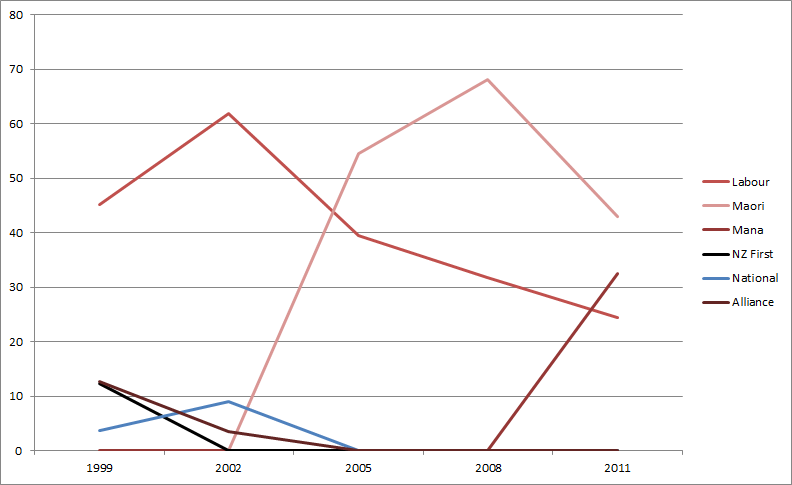 Electoral results of the New Zealand electorate of Waiariki since 1999. Labour Party Māori Party Mana Party New Zealand First National Party Alliance